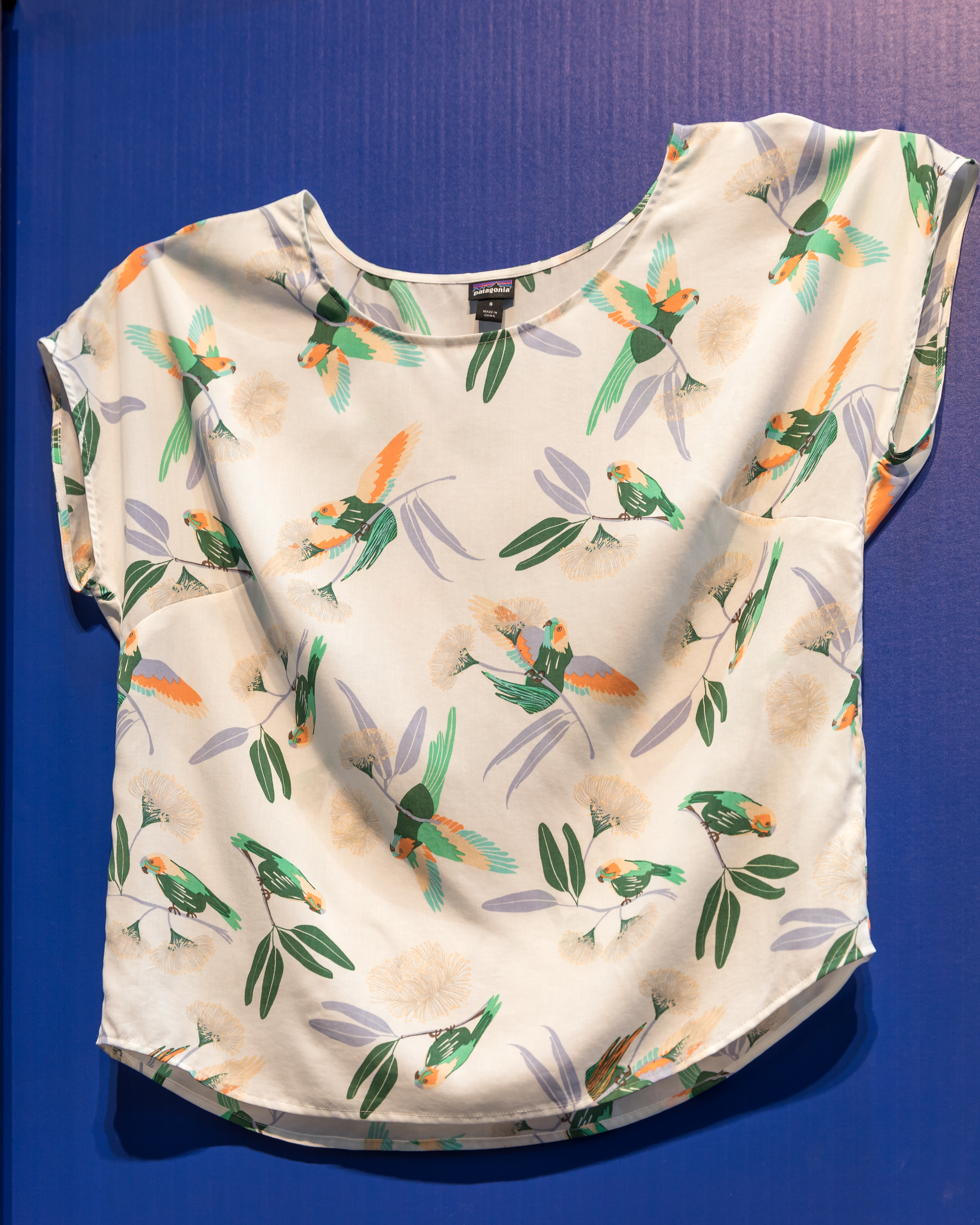 Patagonia lyocell shirt, OutDoor 2018